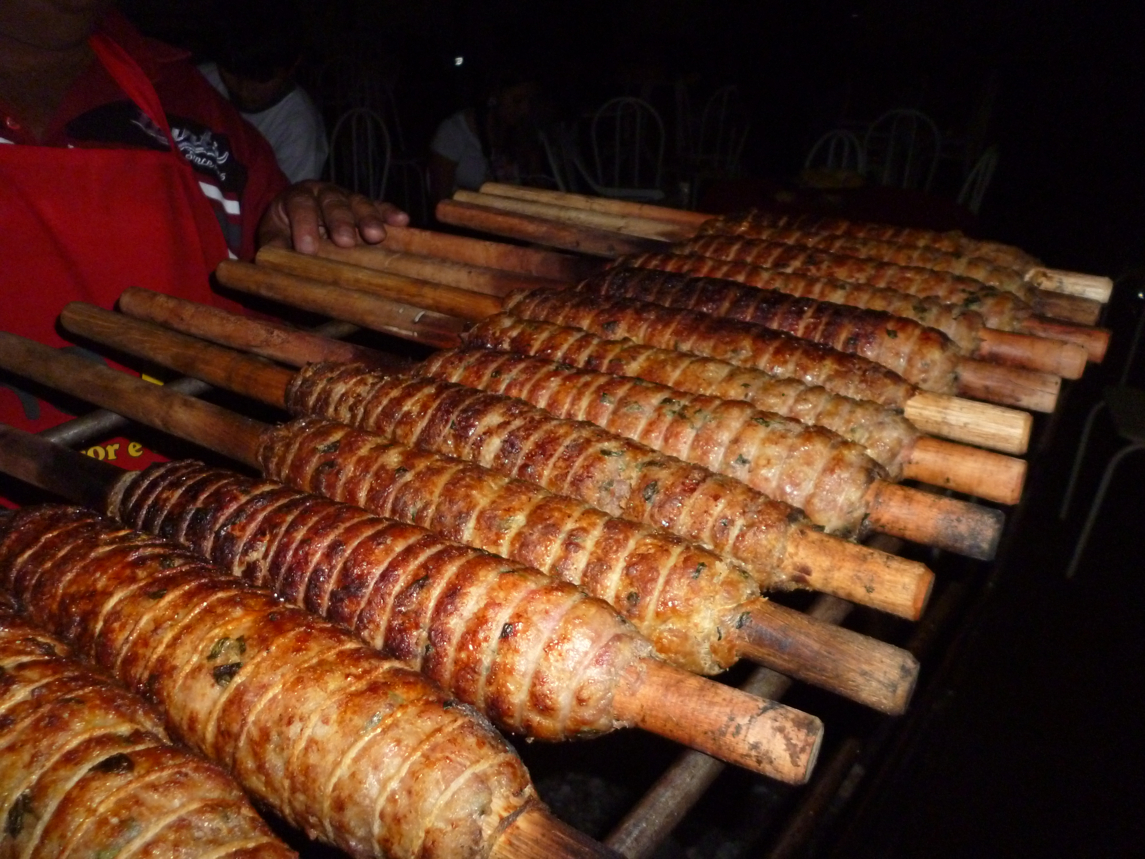 Espeto de Rojão is a regional cultural tipic food from Ribeirão Grande city, in São Paulo's State, Brazil